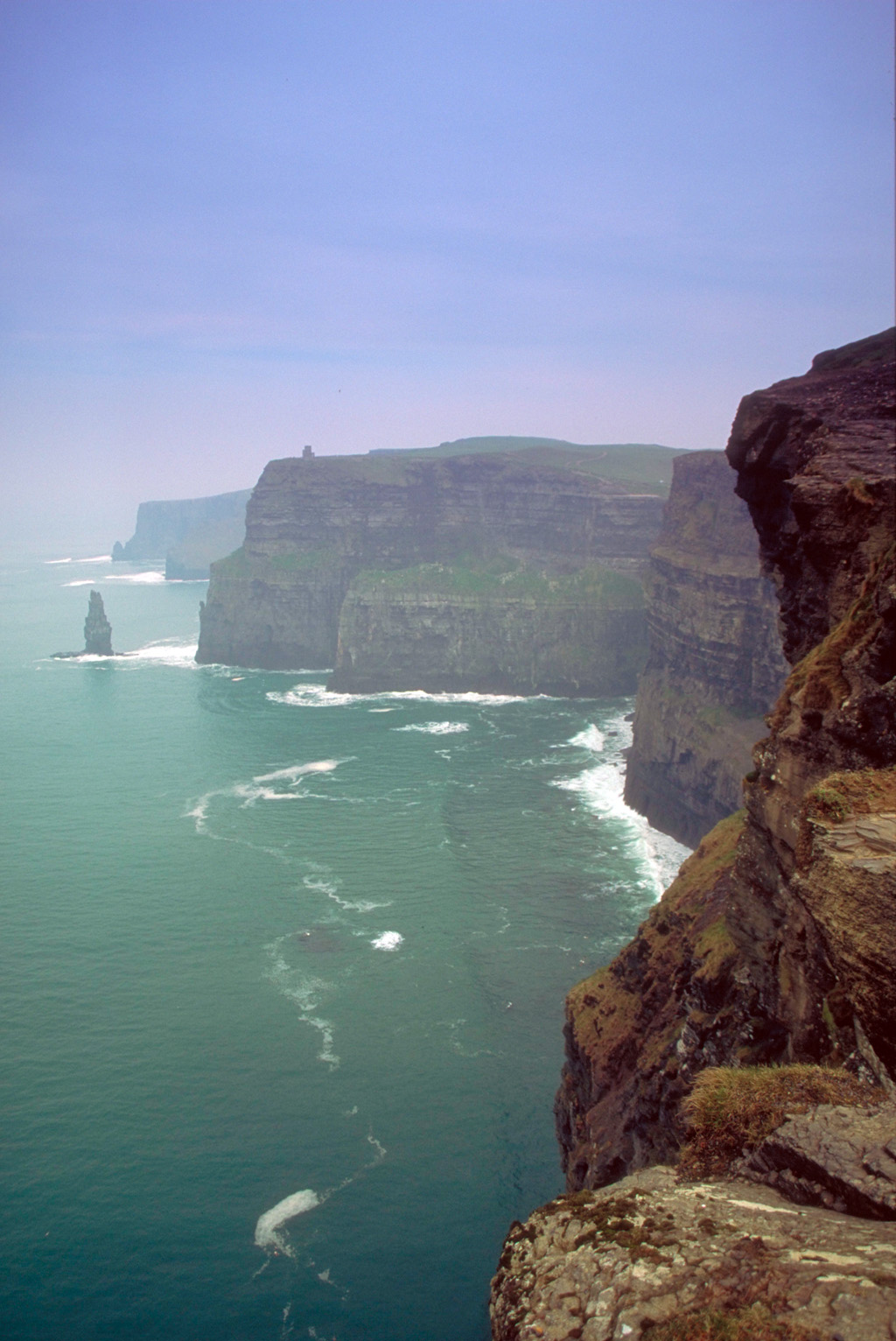 The Cliffs of Moher (looking north), County Clare, Ireland. Picture shot on Fuji Velvia film using a Minolta SLR/tripod by Dlloyd.